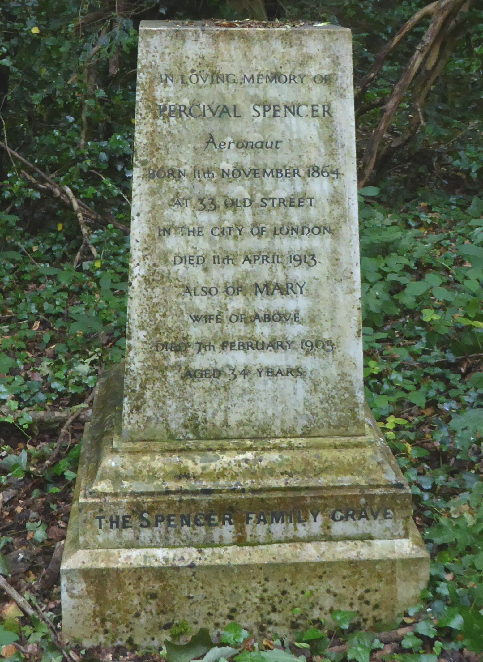 Gravestone of Percival Spencer, balloonist, 1864-1913, in Junction Path, St Pancras and Islington Cemetery